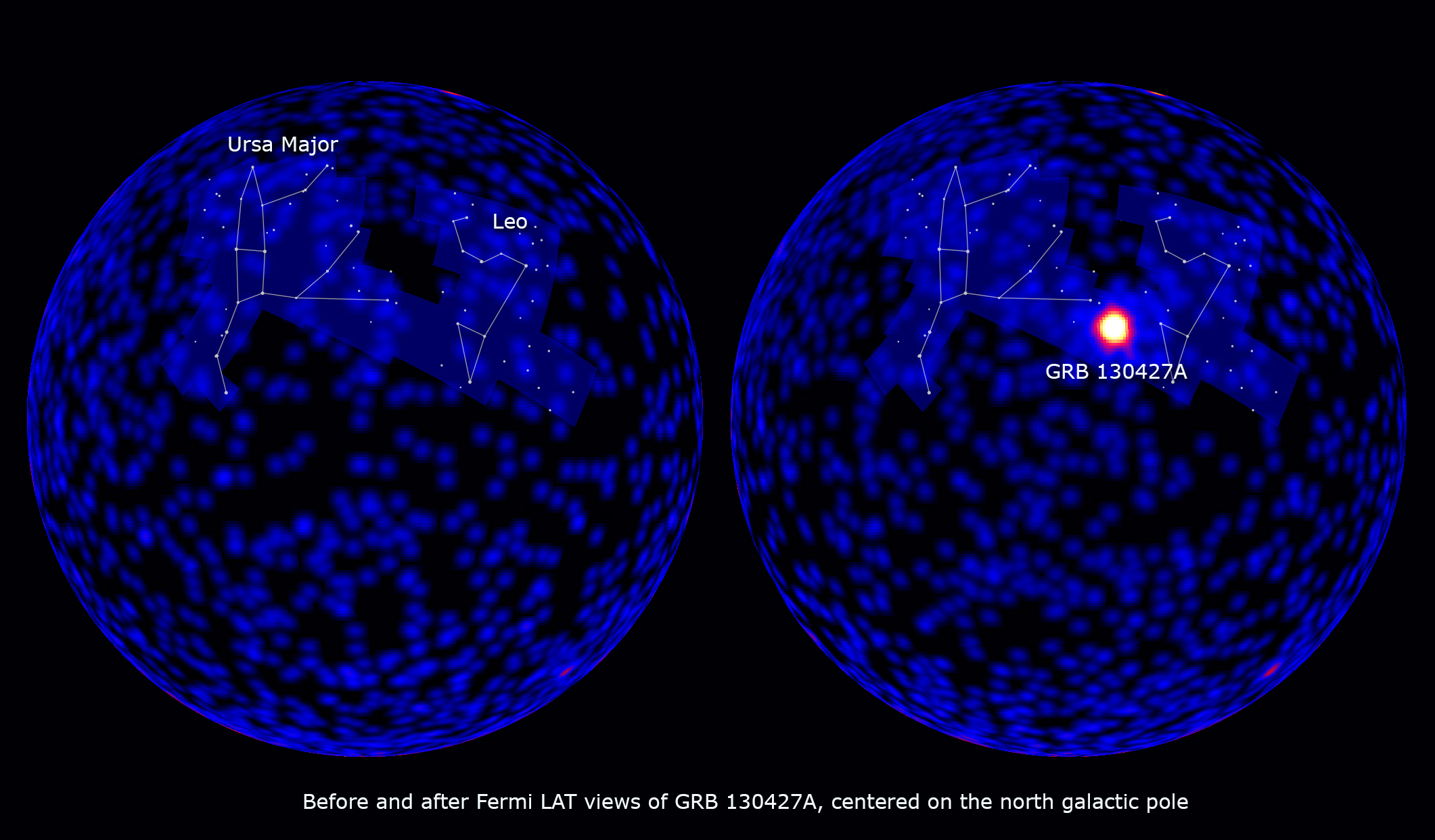 The maps in this animation show how the sky looks at gamma-ray energies above 100 million electron volts (MeV) with a view centered on the north galactic pole. The first frame shows the sky during a three-hour interval prior to GRB 130427A. The second frame shows a three-hour interval starting 2.5 hours before the burst, and ending 30 minutes into the event. The Fermi team chose this interval to demonstrate how bright the burst was relative to the rest of the gamma-ray sky. This burst was bright enough that Fermi autonomously left its normal surveying mode to give the LAT instrument a better view, so the three-hour exposure following the burst does not cover the whole sky in the usual way.